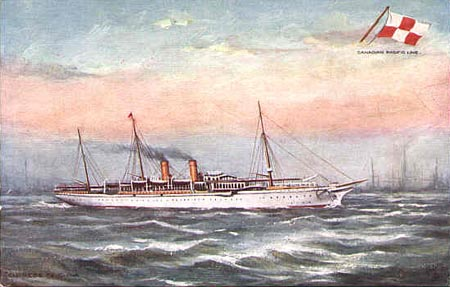 artist's rendering of one of three Canadian Pacific Steamship ocean liners which began sailing in 1891 -- postcard, promotional advertising